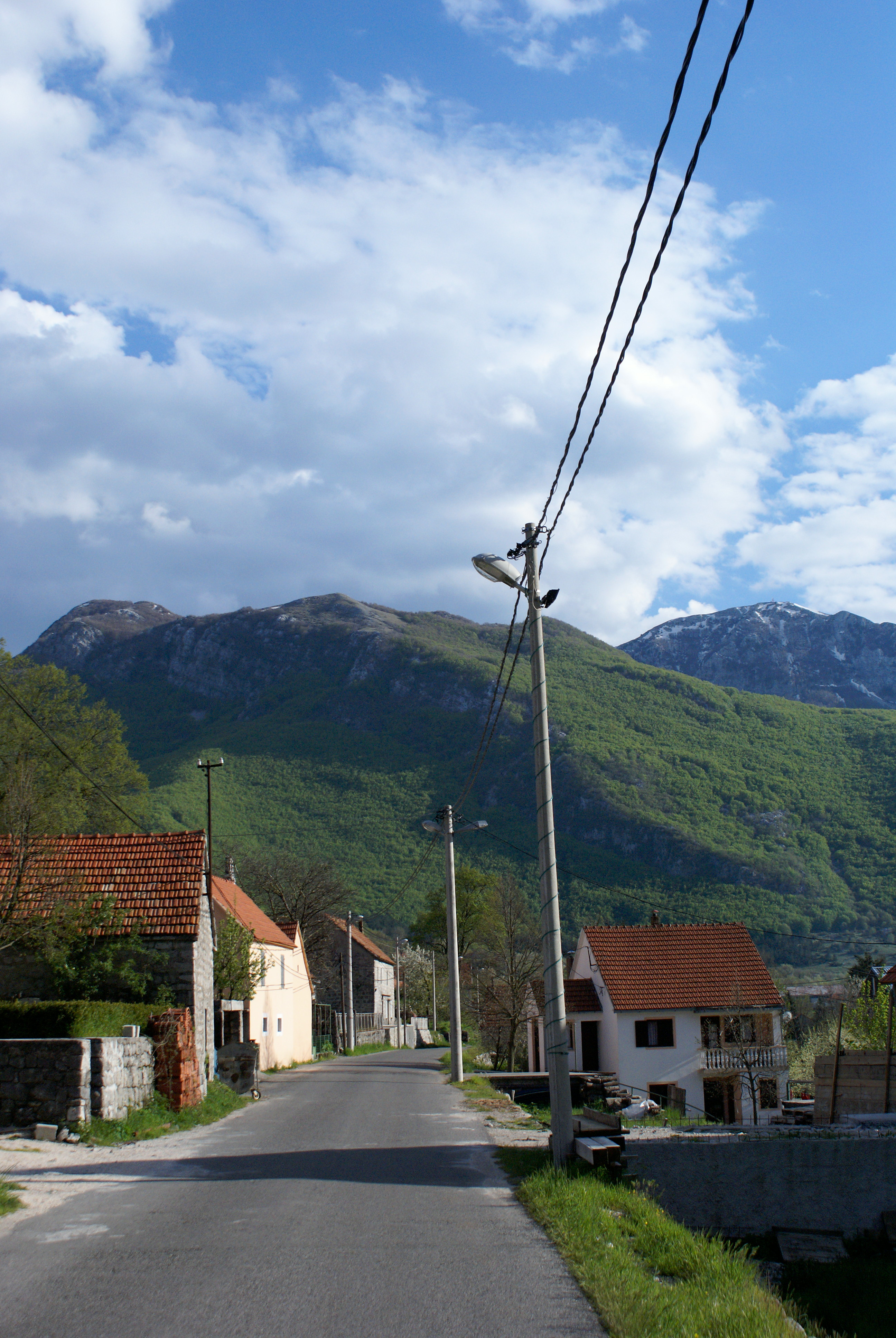 View of the village of Njeguši and Mount Lovćen